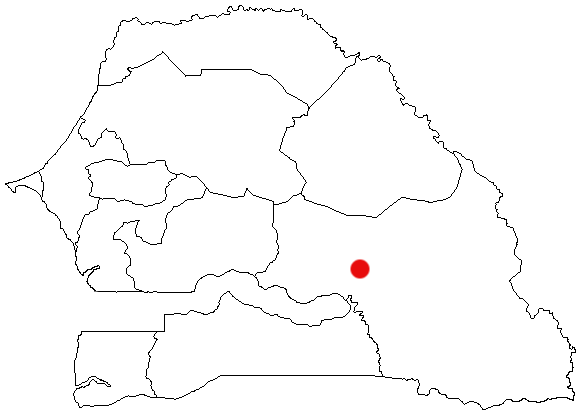 locator map of the commune of Tambacounda, Senegal